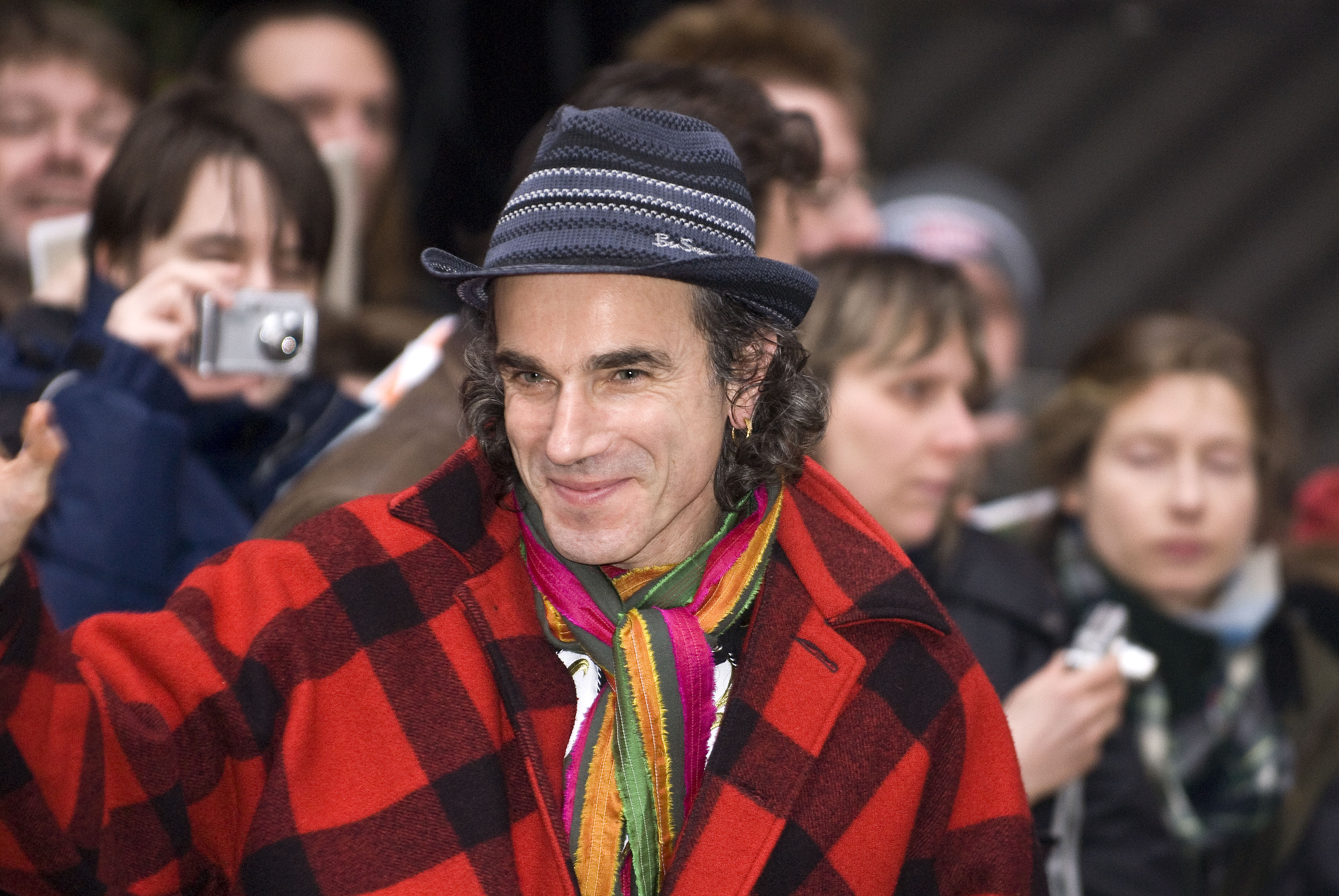 Last night Daniel Day-Lewis won an Oscar as Best Actor for "There will be blood" Daniel Day-Lewis, Leaving the press conference of "There will be blood" at the Hyatt Hotel, Potsdamer Platz, Berlin